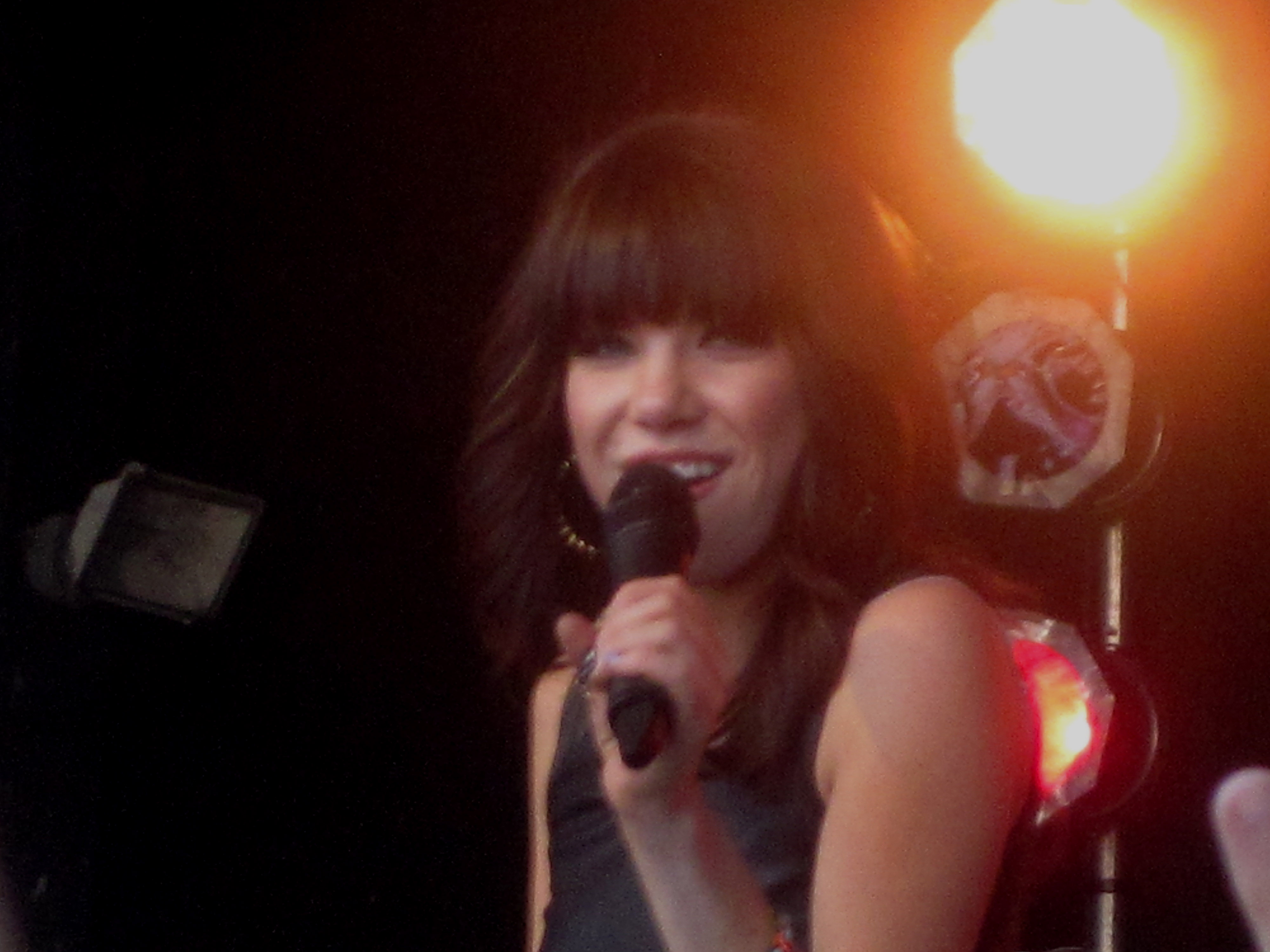 Carly Rae Jepsen at Red River Ex, 2012